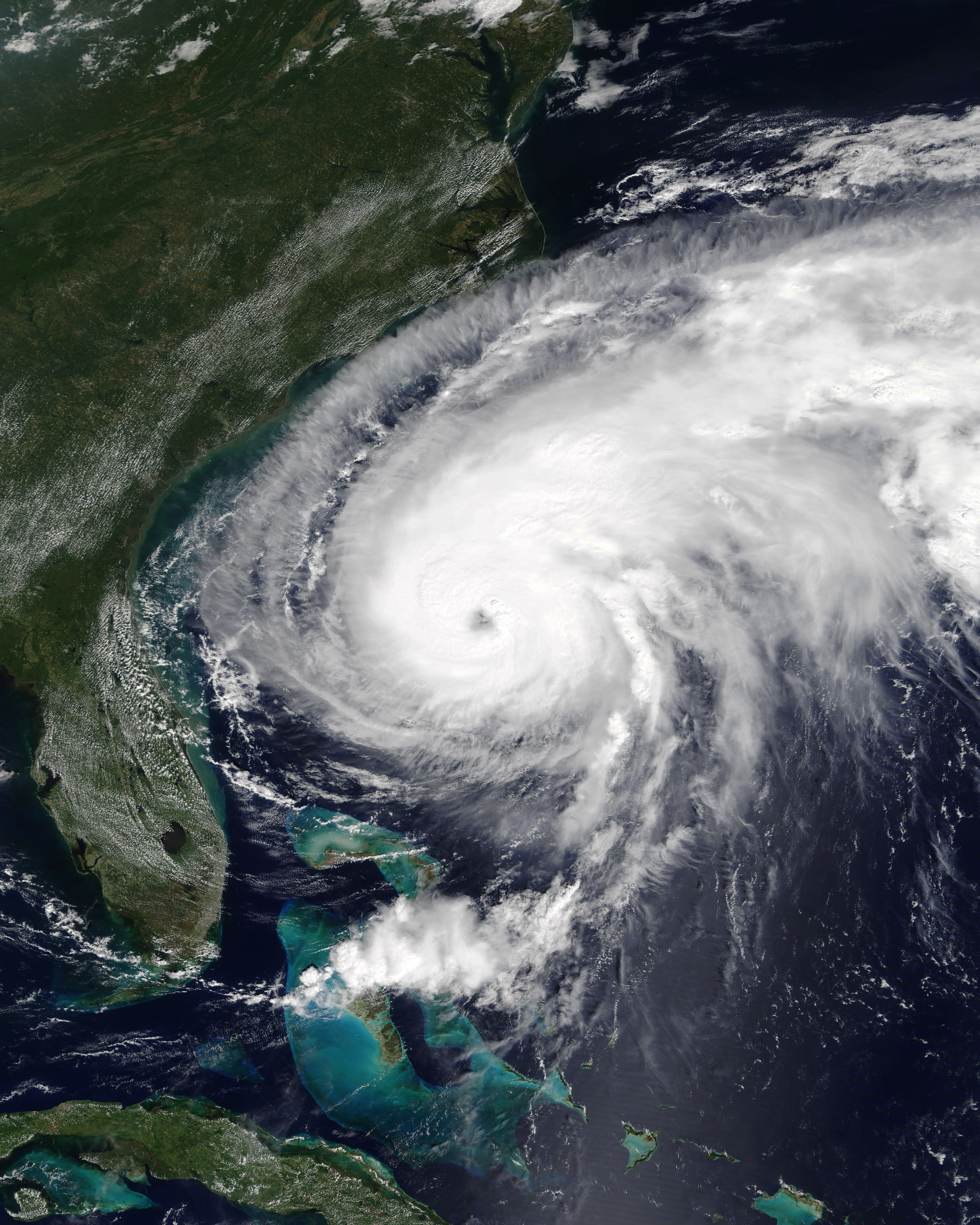 Hurricane Humberto on September 16, 2019